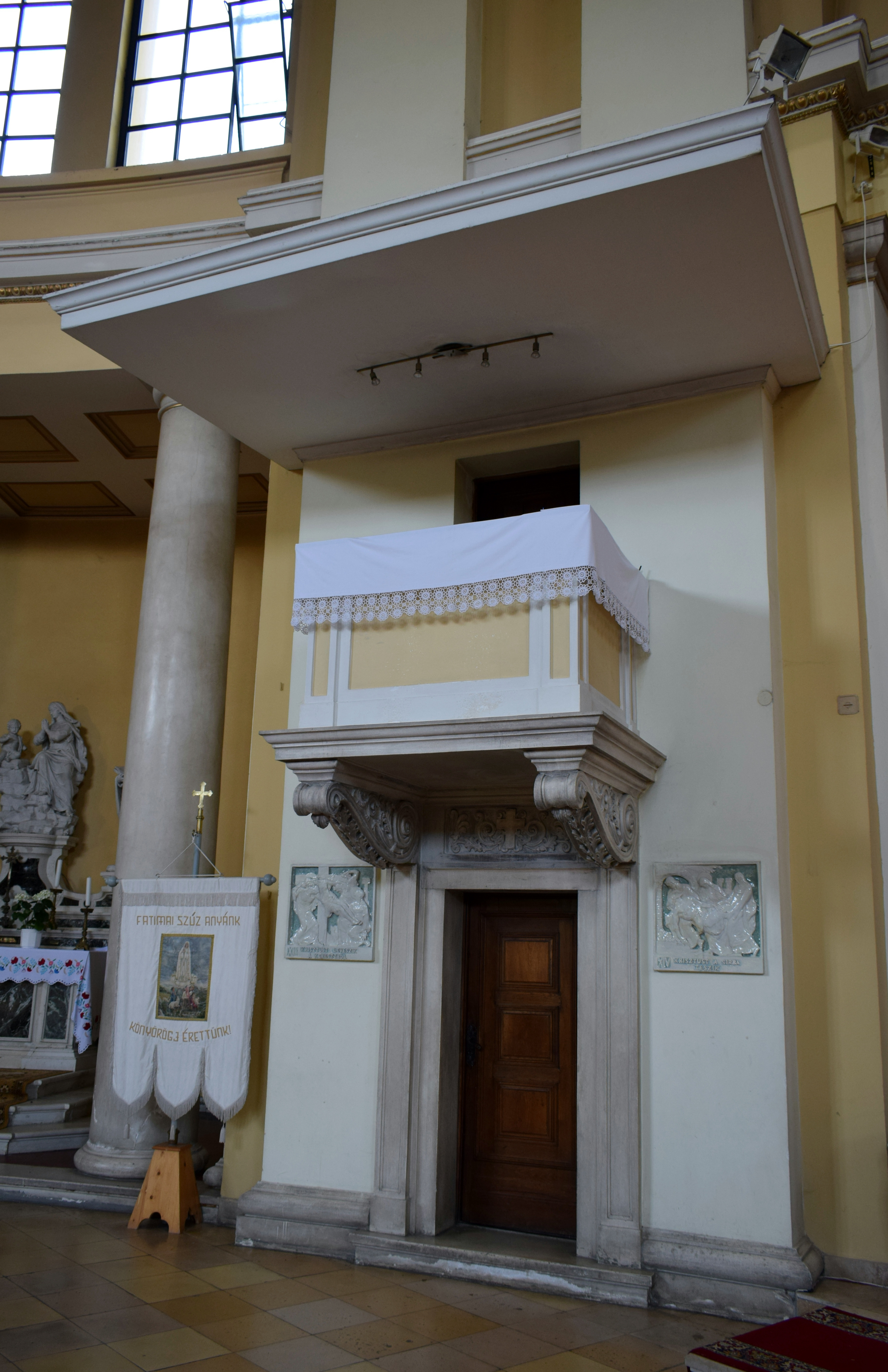 Pulpit of the Prohászka Memorial Church in Székesfehérvár (1933, Gáspár Fábián)